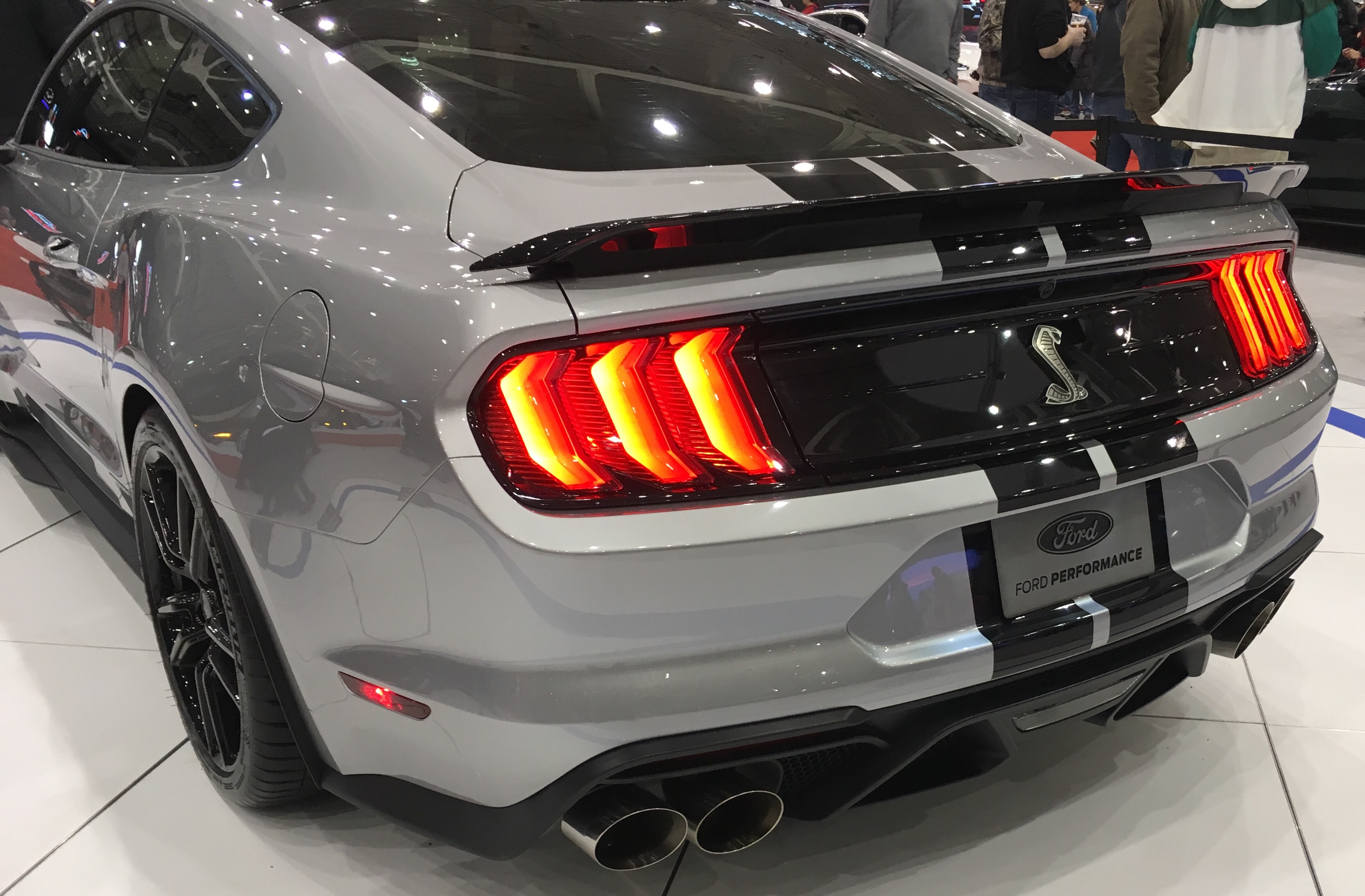 The rear of a 2020 Ford Mustang Shelby GT500 Coupe, photographed at the I-X Center